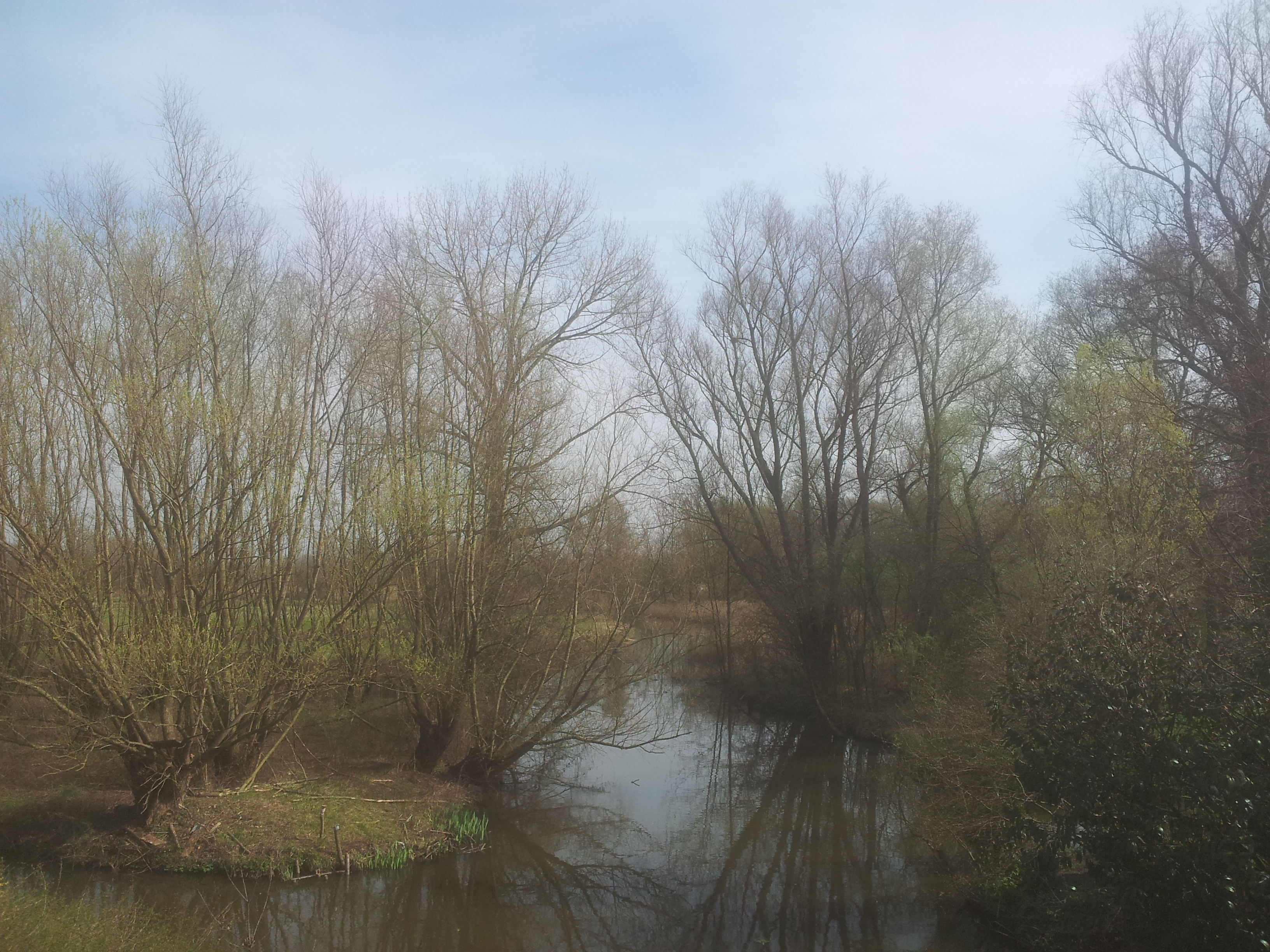 Kornse boezem near Hank, Netherlands